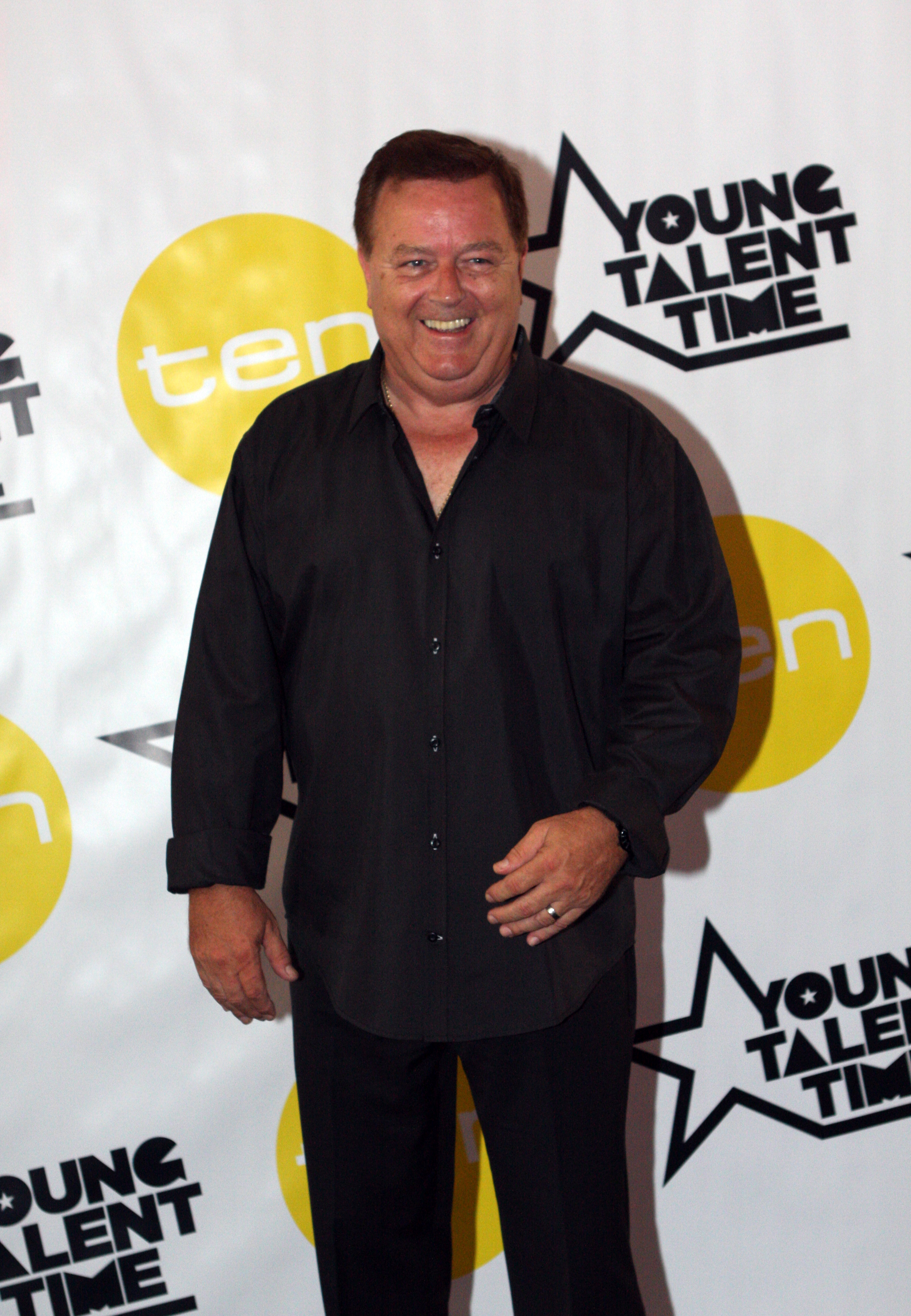 Young Talent Time Media Event At Luna Park Sydney Young Talent Time hits Australian television this Sunday night and we're fired up to watch it. The show is a revamp of the hit 80s talent show that helped make talent such as Dannii Minogue and Tina Arena household names. You'll be glad to hear that Tina is back as a judge on the new show, alongside Chucky Klapow and host Rob Mills. The show will feature a core group of ten young singers aged 16 and under who will perform a series of songs each weekend. Australian teens (and many of their parents) are tipped to religiously tune in and Ten thinks they have a real ratings winner on their hands, and we tend to agree. The show might just help find Australia's next answer to Justin Bieber, Selena Gomez, Cody Simpson and Miley Cyrus? There are no contestants in the first episode, as the show looks back on its long history and presents the new YTT Team. Four contestants will compete in the show from the second week. YTT includes a live band under Musical Director John Foreman, with live singing and performing. In a new and creative promo you see YTT youngsters performing 'Jumpstart' and its rather catchy stuff. The new YTT Team are: Georgia-May Davis (aged 16, Sydney) Adrien Nookadu (aged 15, Sydney) Lyndall Wennekes (aged 15, Sydney) Tia Gigliotti (aged 15, Sydney) Tyler Wilford (aged 14, Melbourne) Sean Emmett (aged 14, Sydney) Serena Suen (aged 13, Sydney) Michelle Mutyora (aged 13, Sydney) Nicholas Di Cecco (aged 12, Sydney) Aydan Calafiore (aged 11, Melbourne) Special thanks to Brooke and the team at Network Ten for helping things go so smooth for us. Young Talent Time premieres on Sunday January 22 at 6.30pm on Channel Ten. Websites Young Talent Time official website Network Ten Luna Park Sydney Eva Rinaldi Photography Flickr Eva Rinaldi Photography Music News Australia